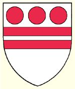 Arms of de Moels from Glover Roll: (1)John de Moels: "Argent two bars gules and in chief three torteaux" (translation of mediaeval French) (2) Nichol de Moels: "d'argent od deux barres de gules ove trois moeles de ules en le chief"